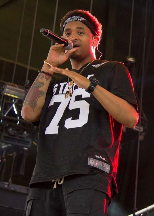 "Under The Influence 2014 featuring Wiz Khalifa, Young Jeezy, Tyga, Ty Dolla $ign, Mack Wilds, Iamsu!, Sage The Gemini, DJ Drama, and Rich Homie Quan. "Photography by CZR-E for The Come Up Show." Photo taken at the Molson Canadian Ampitheatre (now Budweiser Stage) in Toronto, Ontario, Canada.